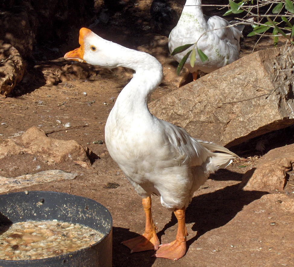 domesticated form with a bump of Anser cygnoides (Swan goose)